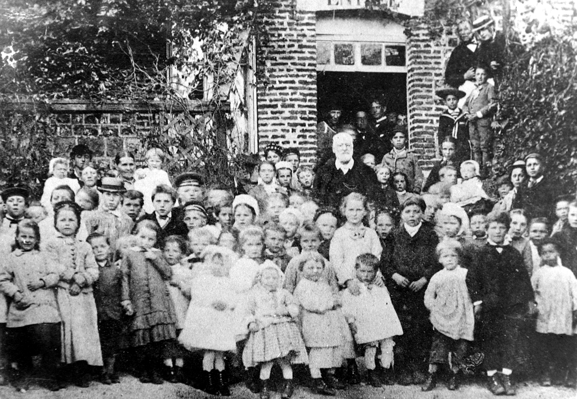 Victor Hugo offering a banquet to children in Veules-les-Roses (France).